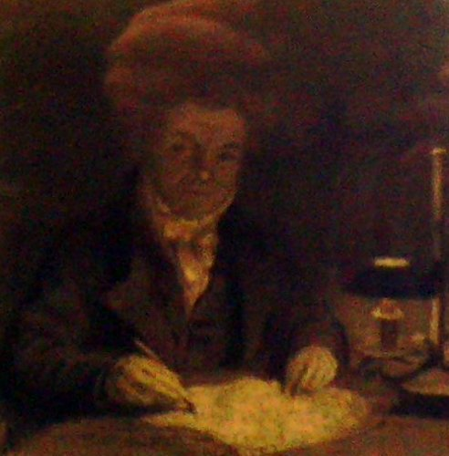 Thomas Tudor - Self portrait - Monmouth Museum - extract